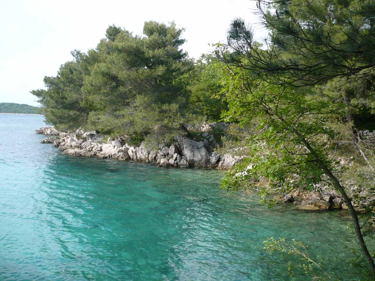 Rocky coast on the island Krk near by location Malinska